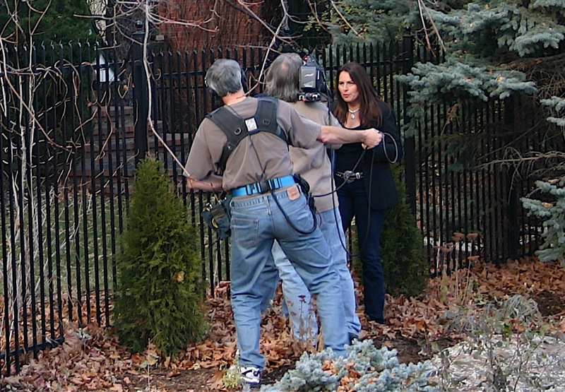 Filming of an episode of True Crime with Aphrodite Jones, an American documentary television series airing on Investigation Discovery. Aphrodite is in Boulder, Colorado with her powerful team trying to understand the difficulties associated with a horrific event.